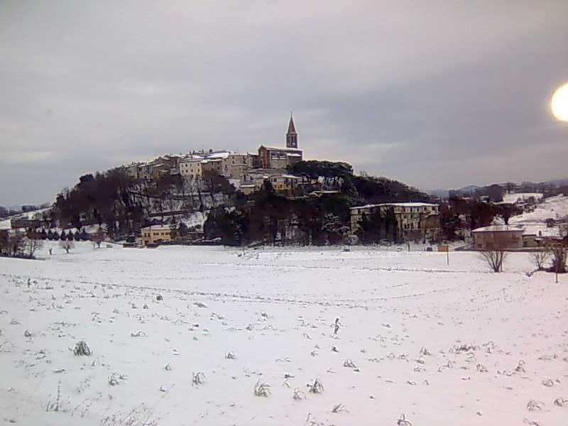 The town of Montecastrilli covered by the snow (winter 2012)